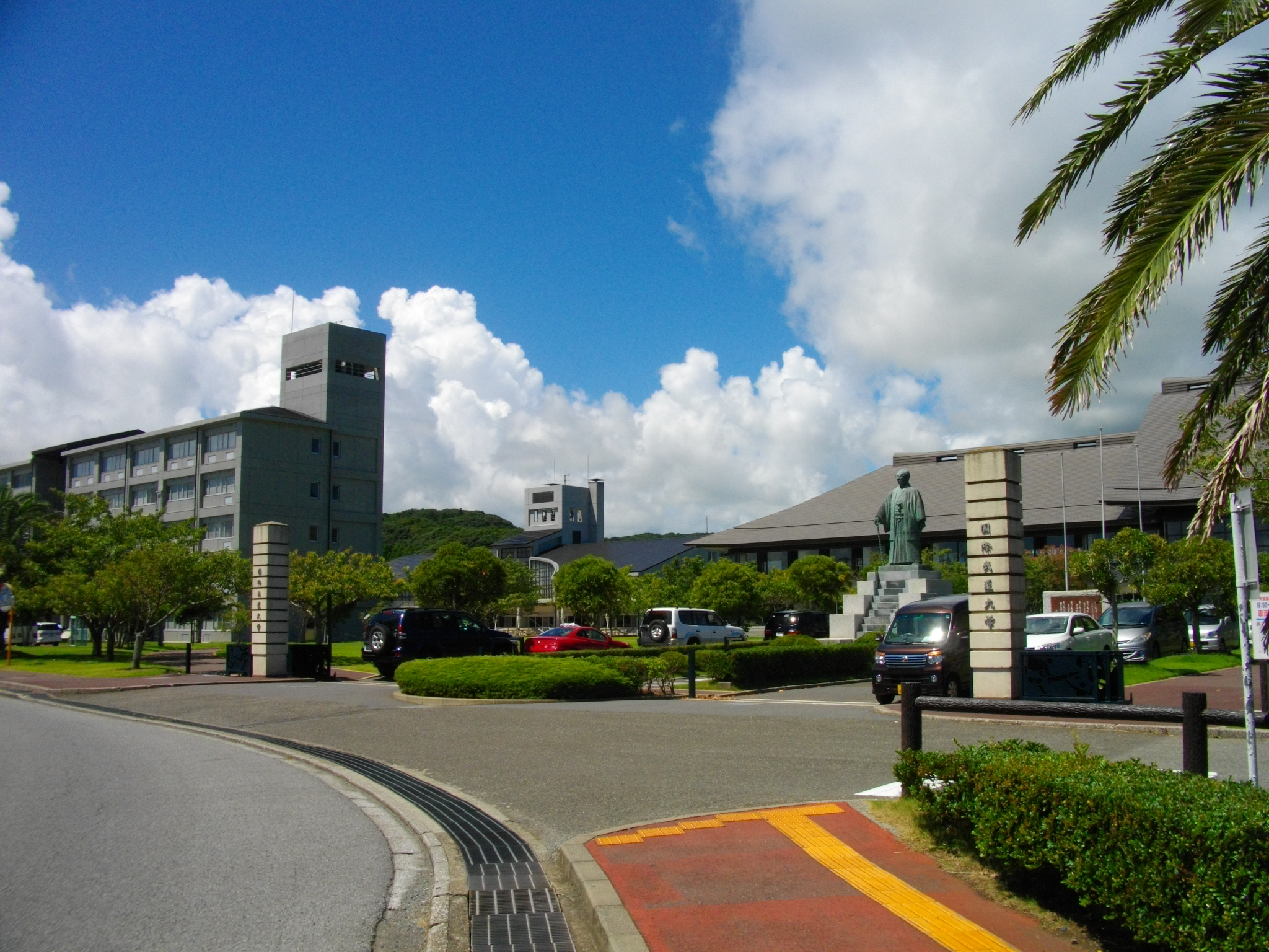 International Budo University